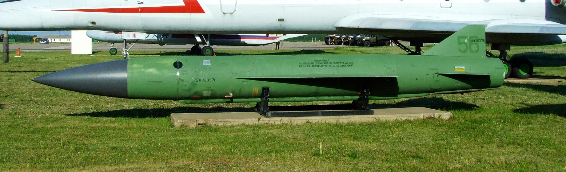 Side view of a soviet-built Raduga Kh-22 anti-ship missile.